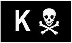 The personal flag of Mariano Llanera.